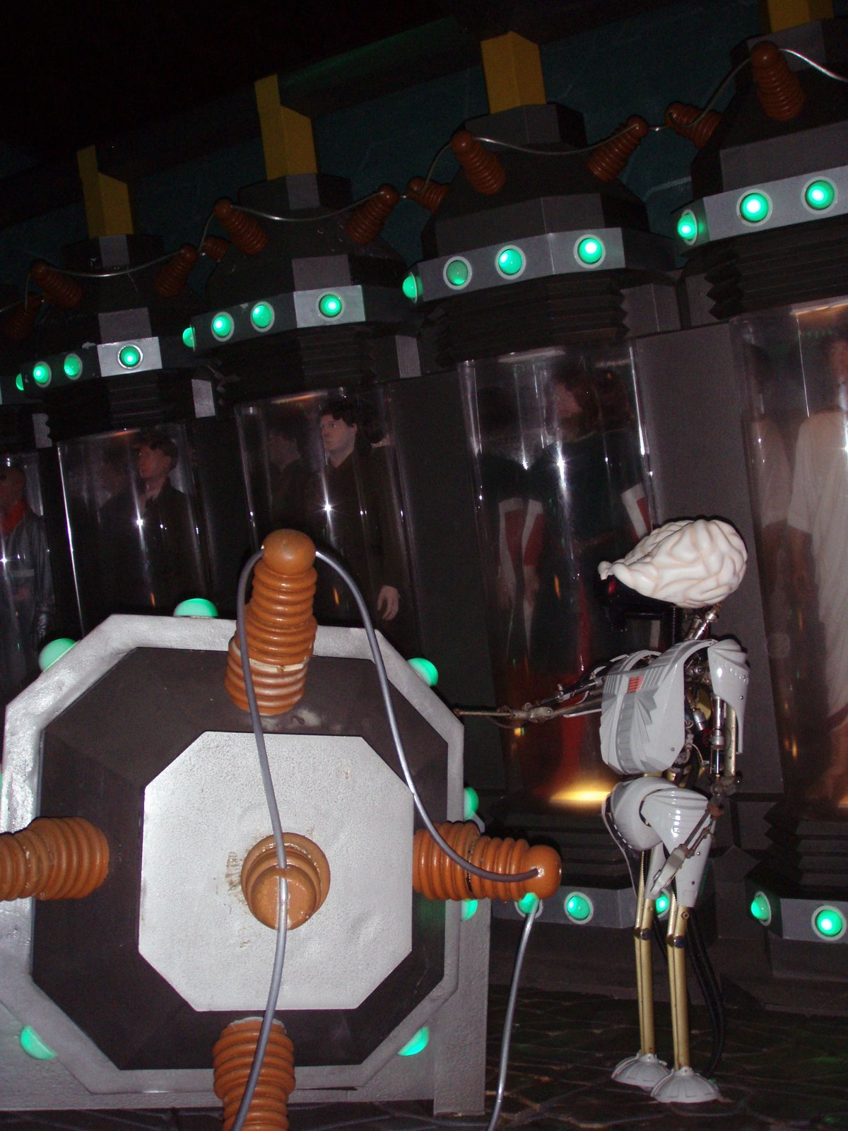 Pictures taken from inside one of the water rides, the Bermuda Triangle, at seaworld. Some times it is really handy having a water proof camera. This ride was quite scary for the little ones with a few crying after they came out. See where this picture was taken. [?]